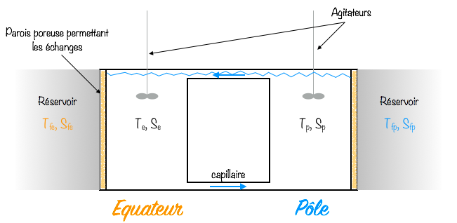 This is a schematic representation of the Stommel's box model of the thermohaline circulation